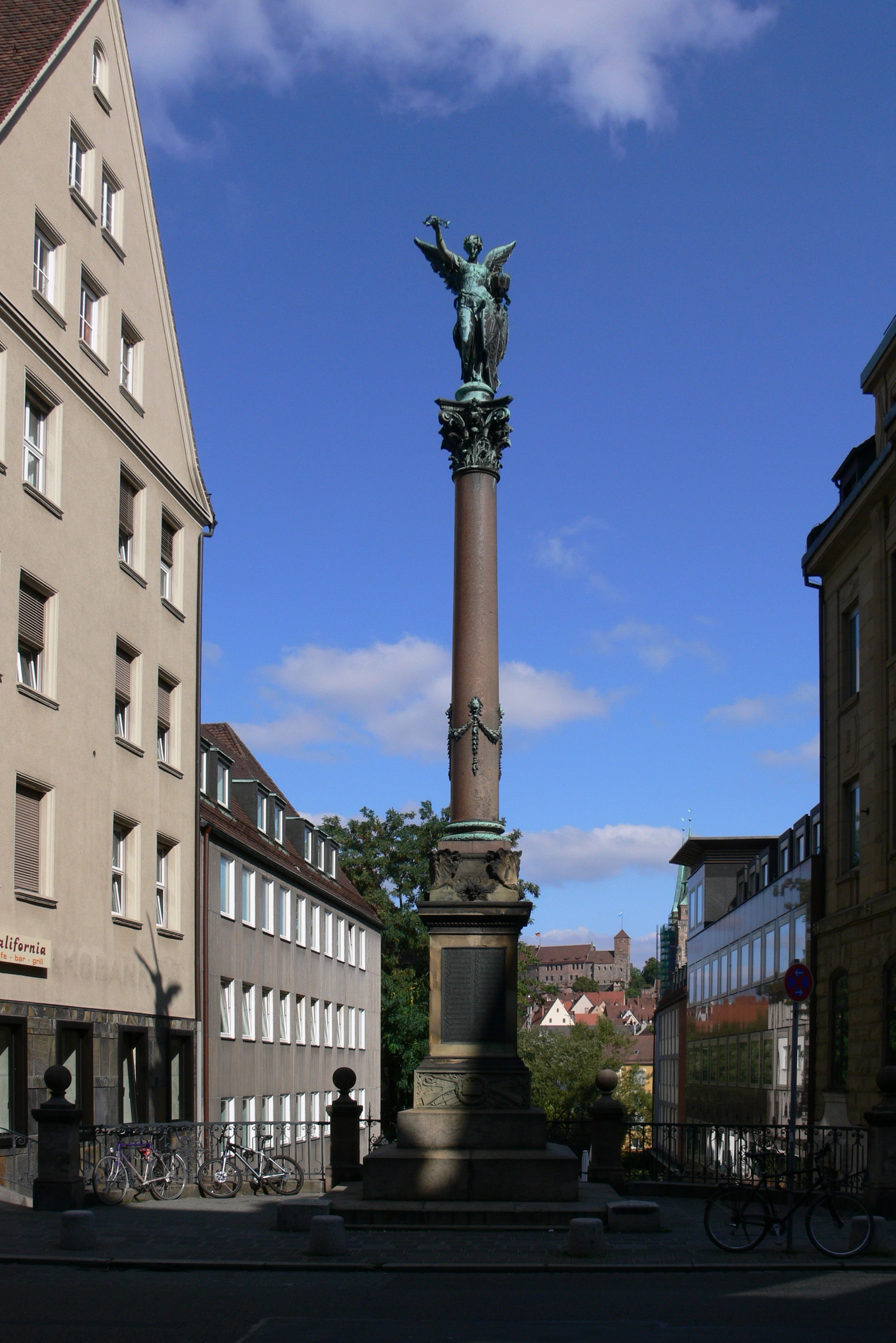 Nuremberg, Adlerstrasse, Memorial for the soldiers from Nuremberg that were killed in action during the Franco-Prussian War of 1870/71. Sculpture of Victoria designed by Friedrich Wanderer, cast by Christoph Lenz. Memorial inaugurated in 1876.